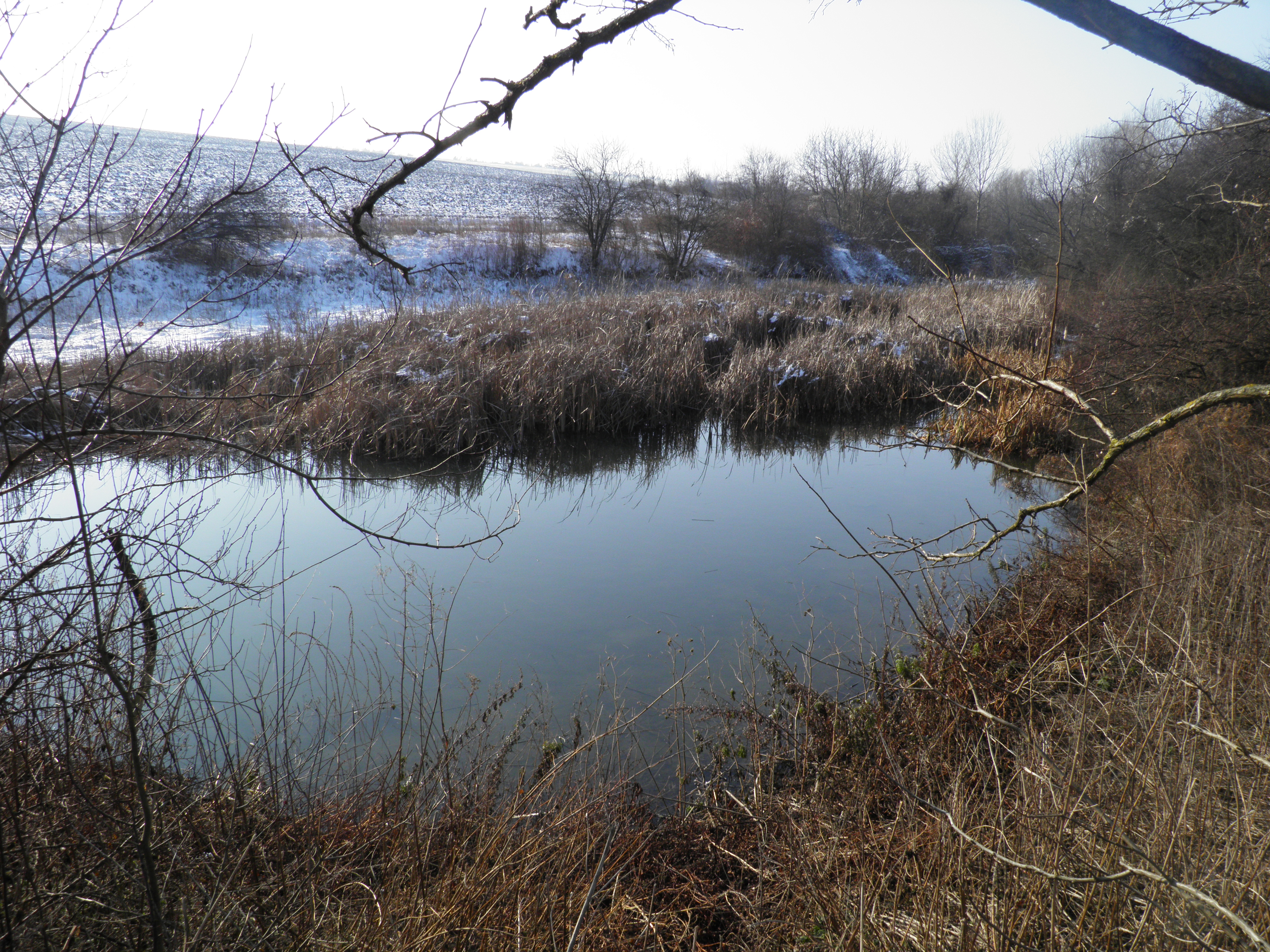 Dam in Polski Senovets